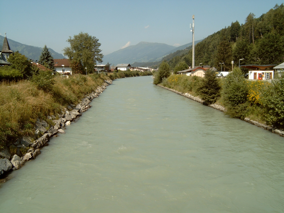 river "Salzach" in "Mittersill"